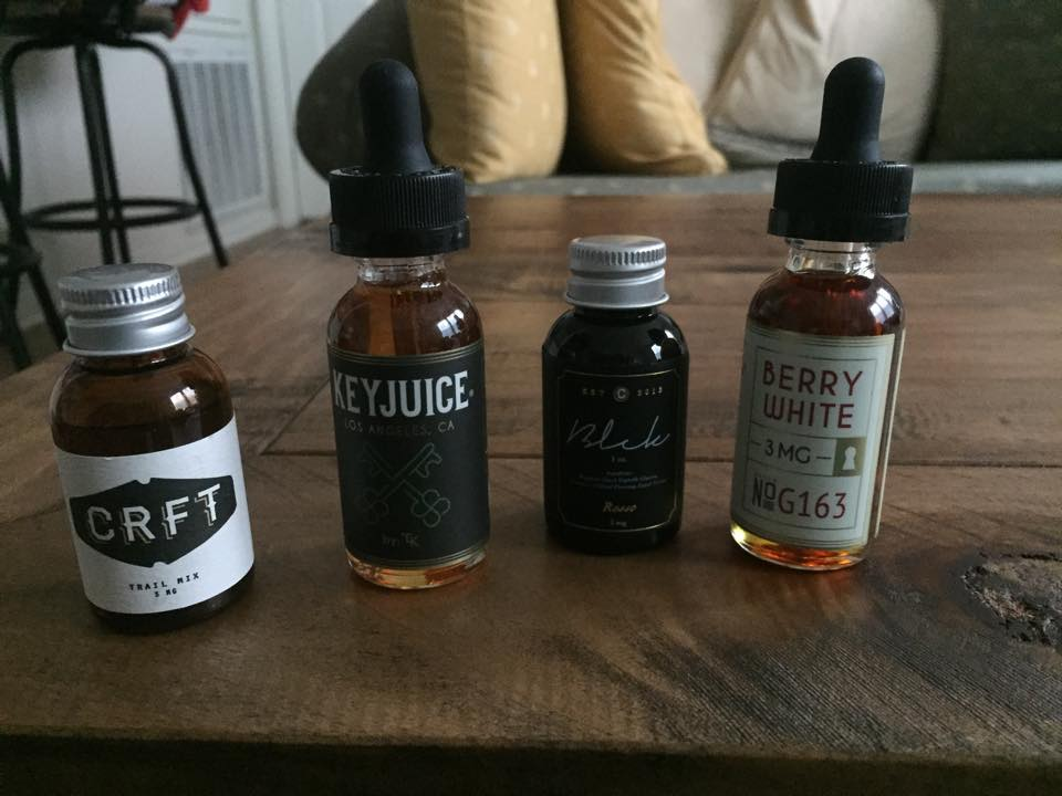 Various e-Liquid bottles